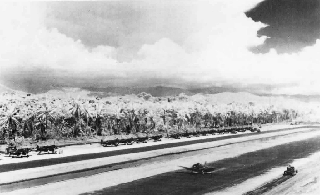 The fighter strip at Torokina was hacked out of the Bougainville jungle. This December 1943 view shows a lineup of U.S. Marine Corps Vought F4U-1 Corsairs and a Douglas SBD Dauntless, which is completing its landing rollout past a grading machine still working to finish the new landing field.